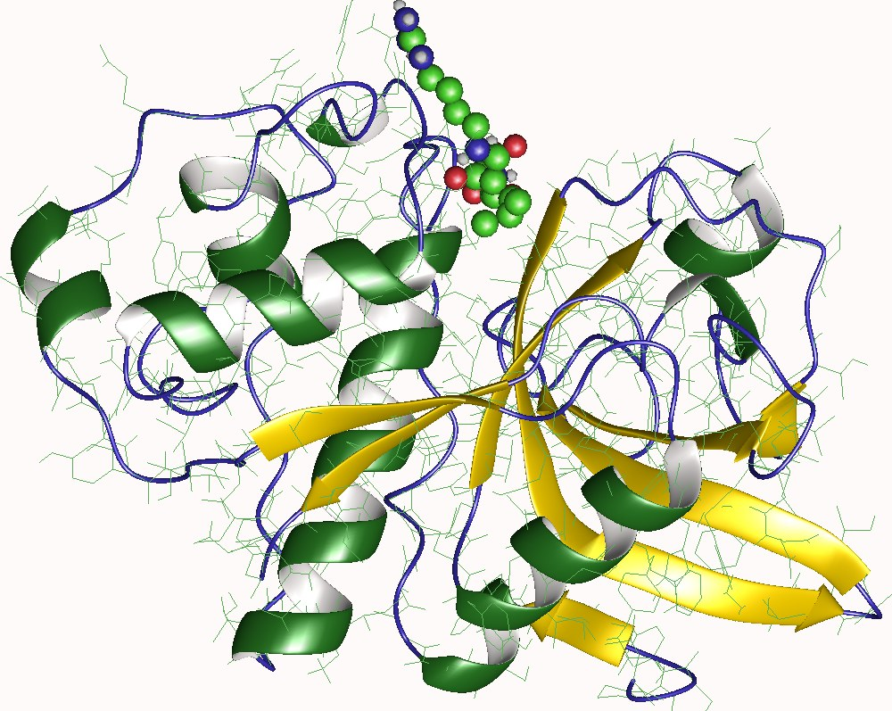 Actinidin monomer + E64 inhibitor (green-red), Actinidia chinensis (kiwi)